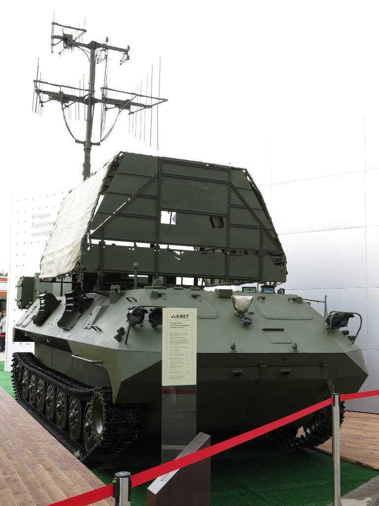 Electronic warfare VHF range jamming station 1L262E based on MT-LBu, Army-2016